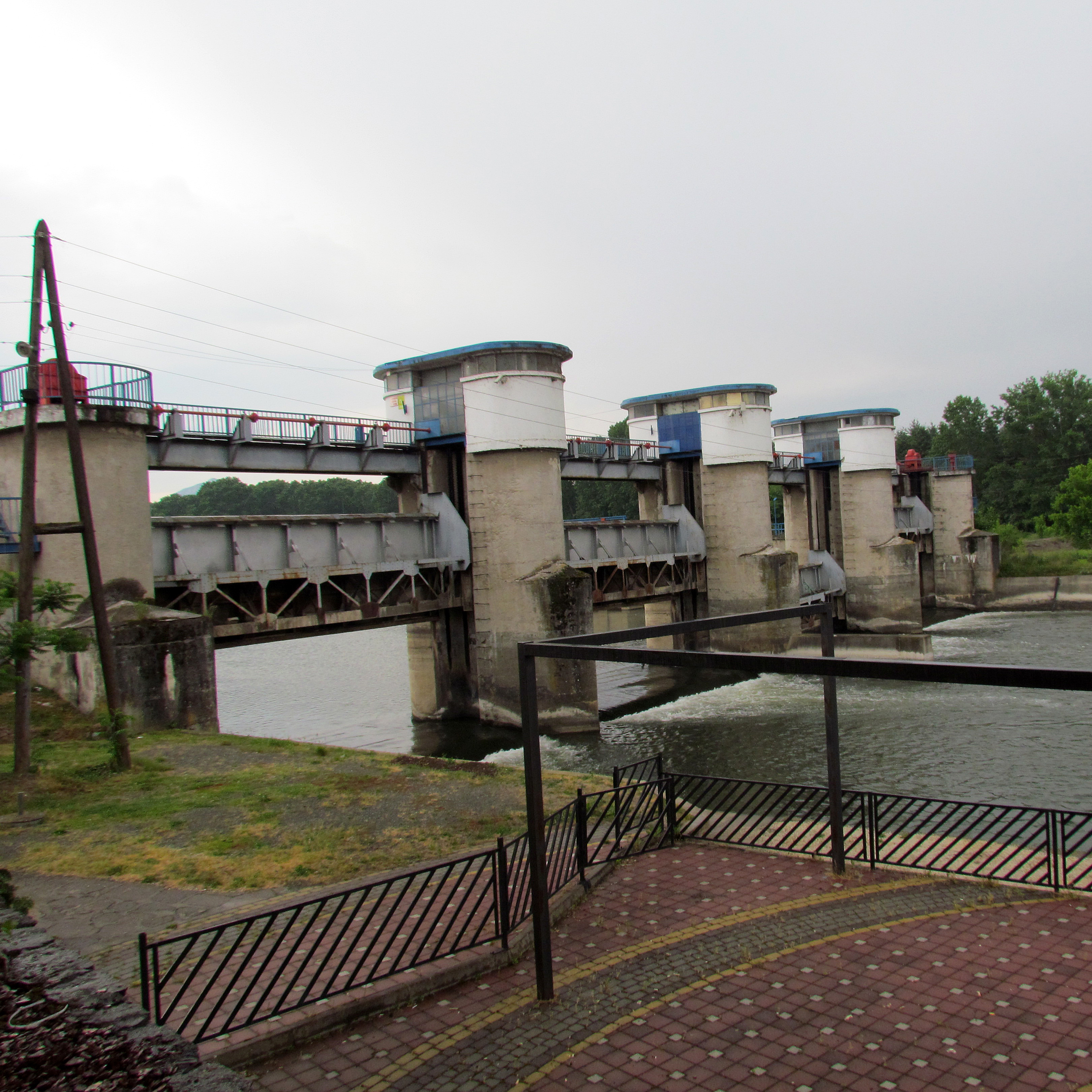 Parmenac dam on West Morava river, Serbia